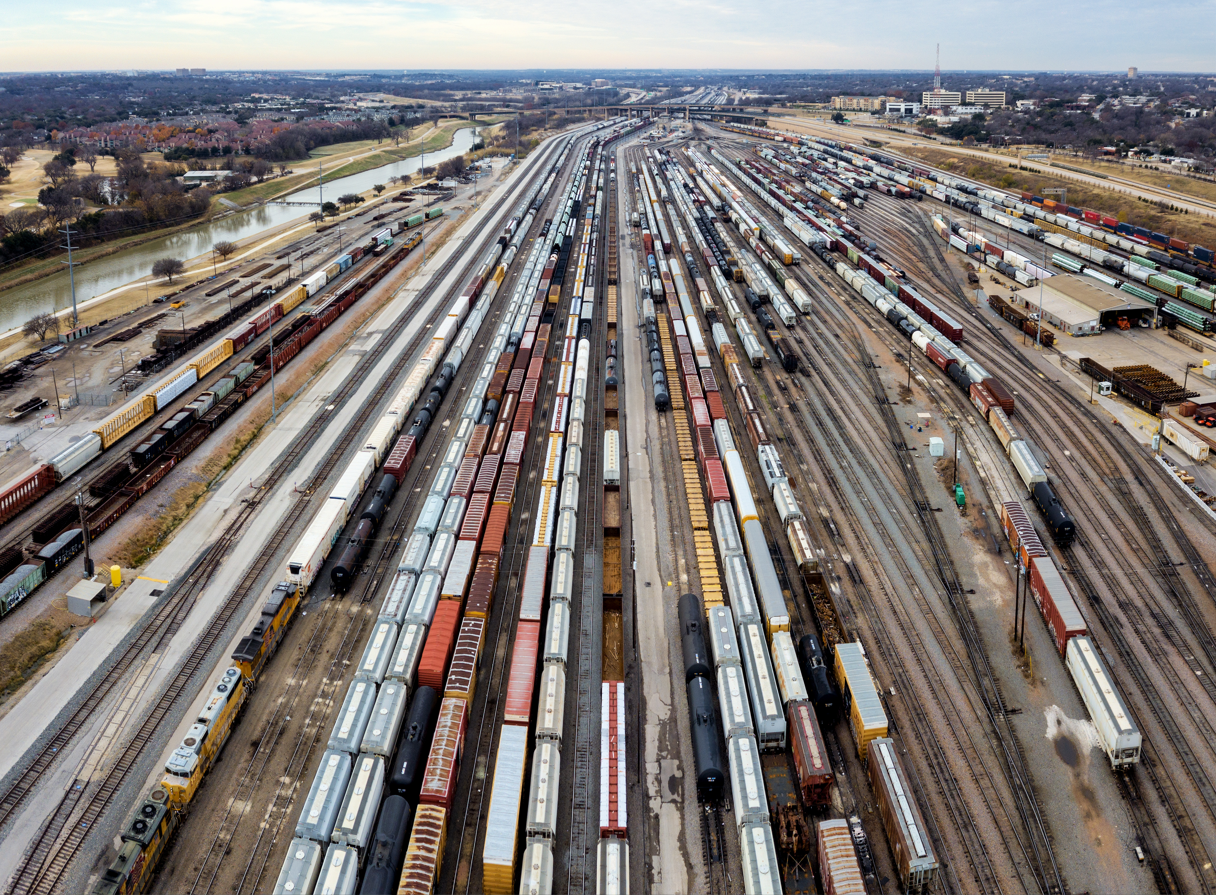 The Union Pacific Davidson Yard in Fort Worth.